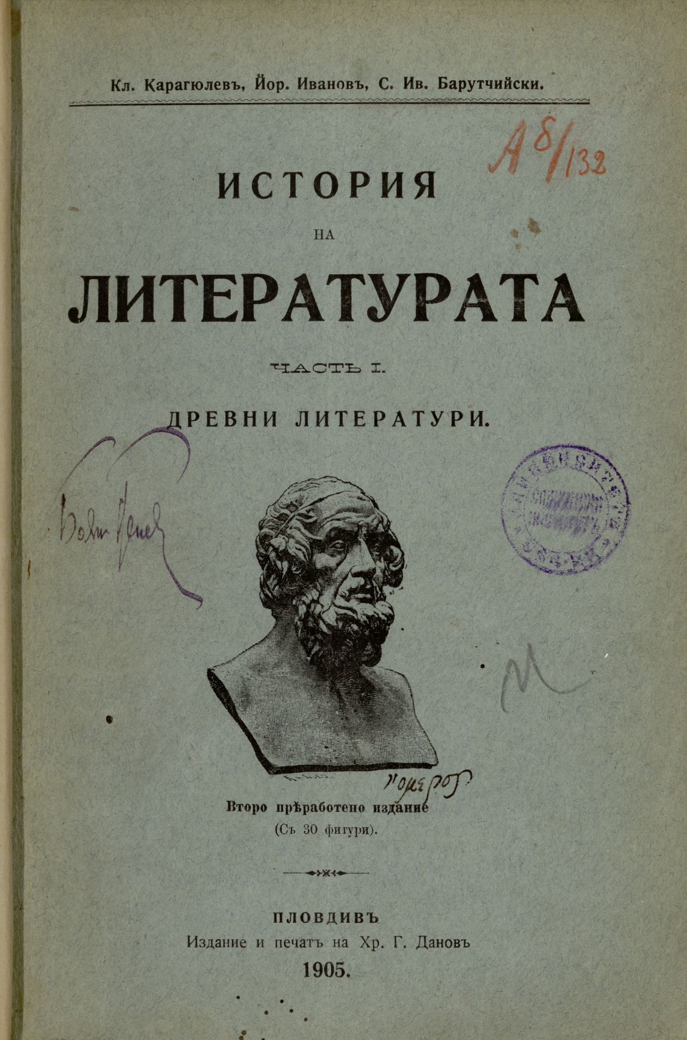 History of literature